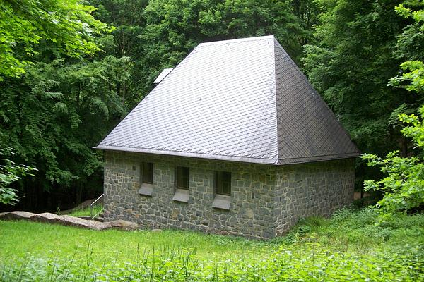 Chapel Zur Not Gottes in Bensheim-Auerbach, Hessen, Germany